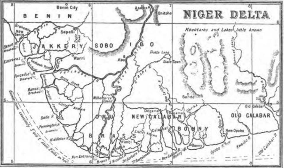 1898 Map of the Niger Delta by Harold Bindloss